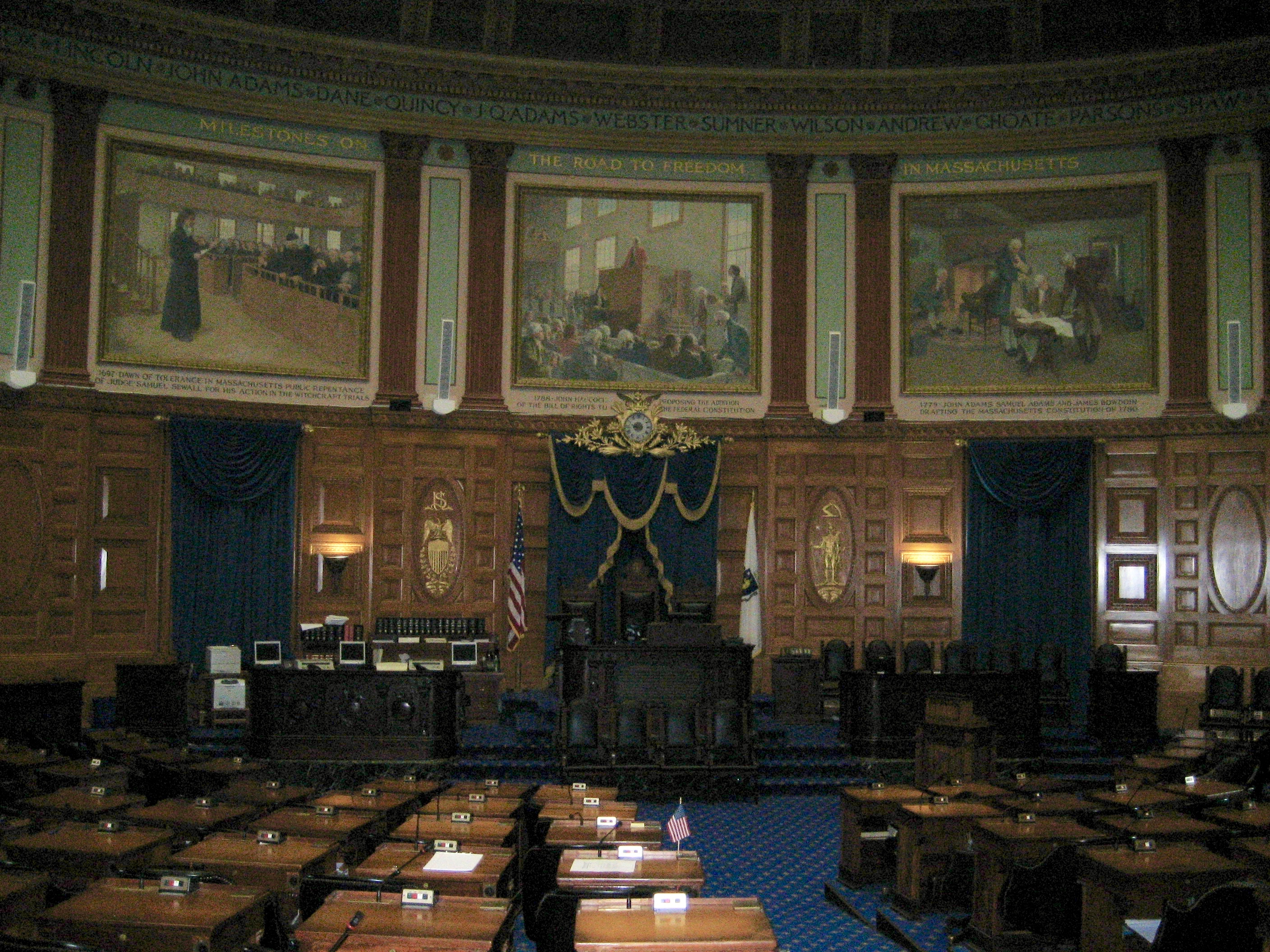 Boston Massachusetts: Interior of State House; view of House Chamber